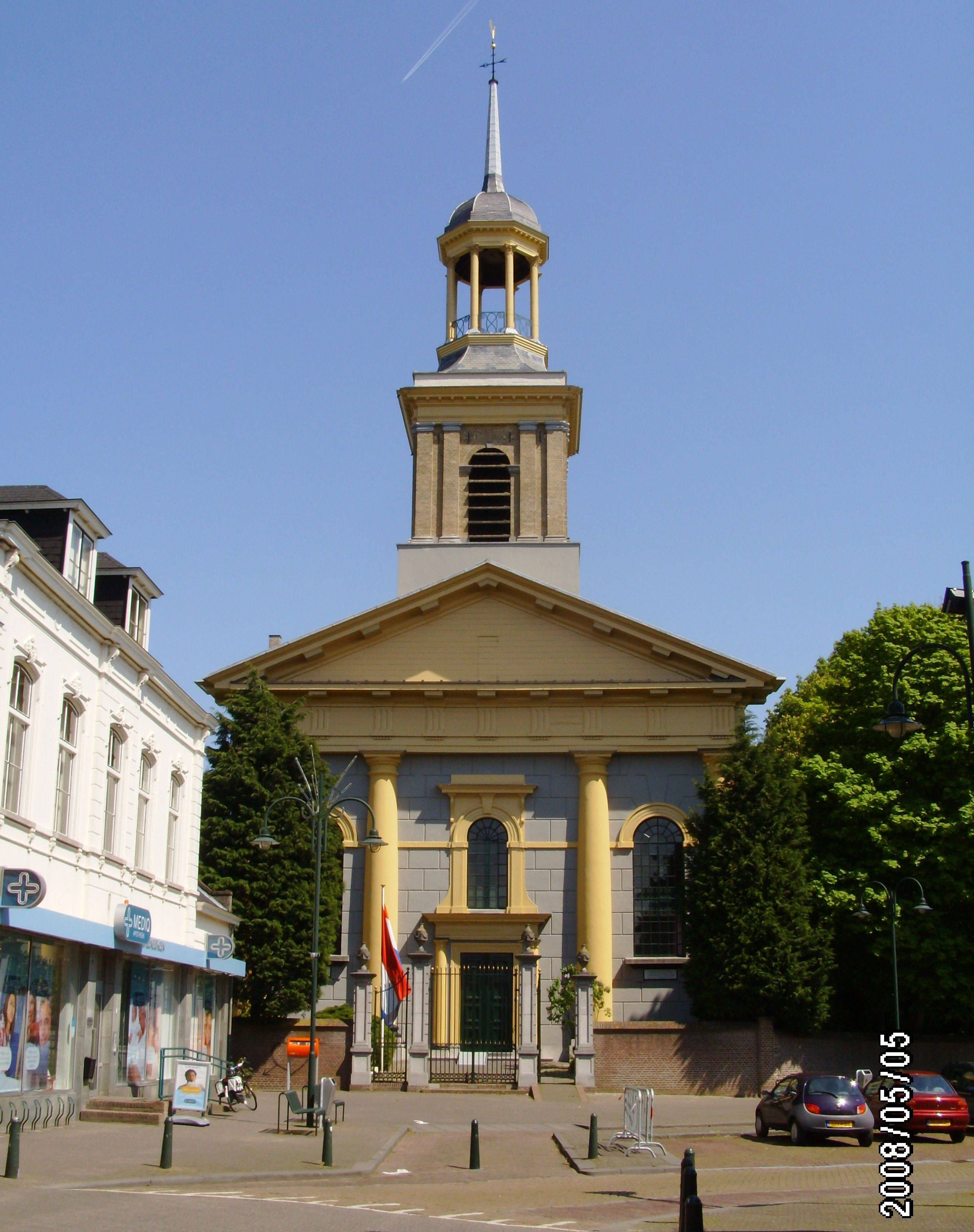 Protestant Church in the Dutch city of Steenbergen